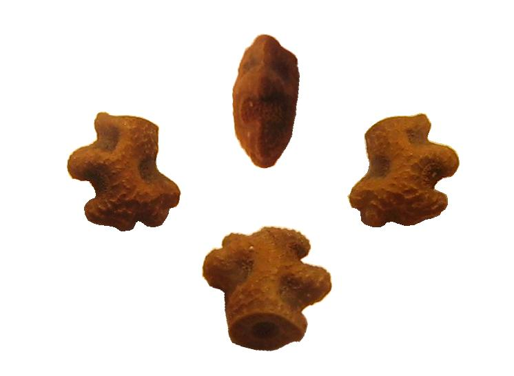 eggs of Acanthomenexenus polyacanthus